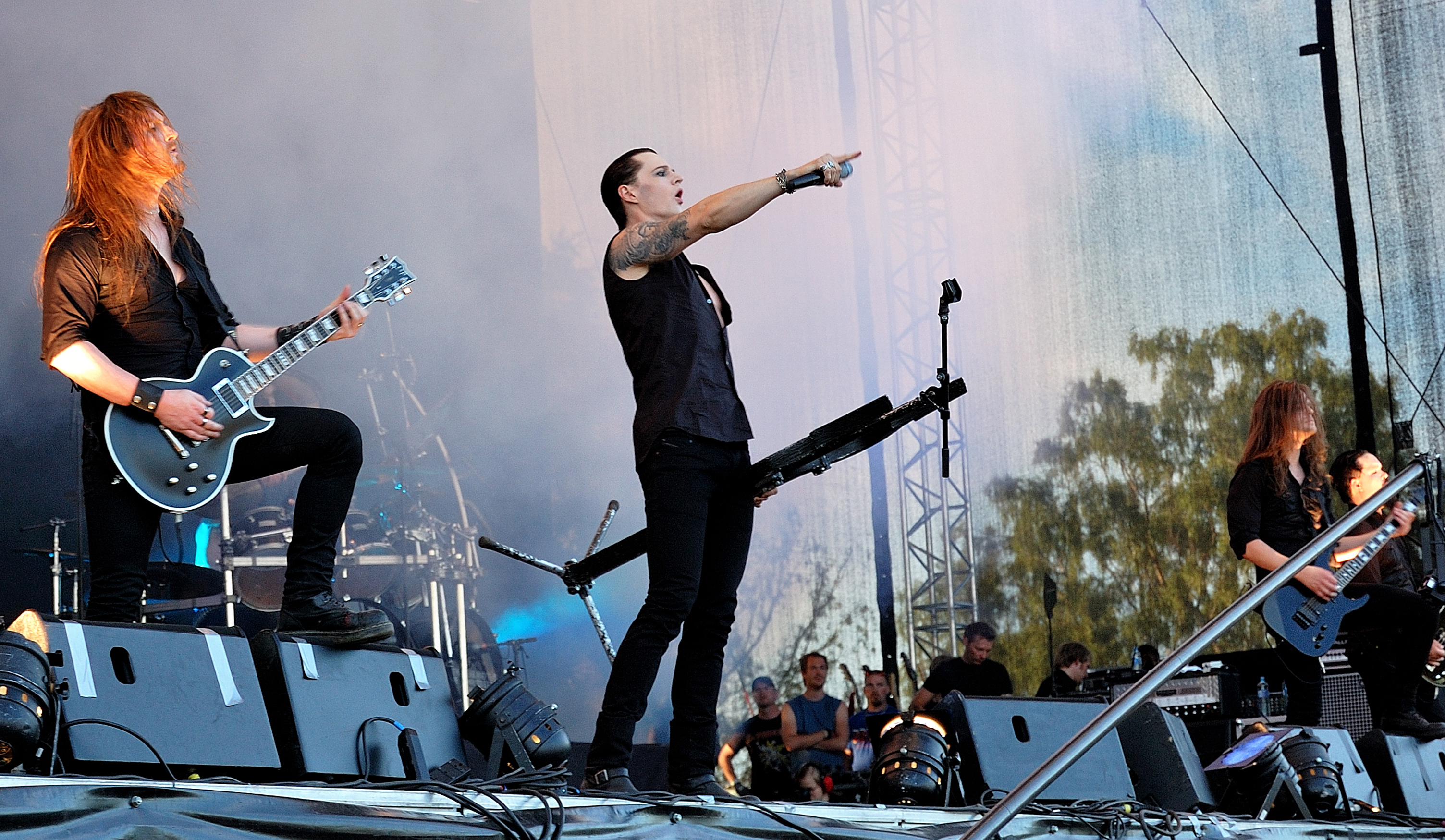 Satyricon live in 2009.